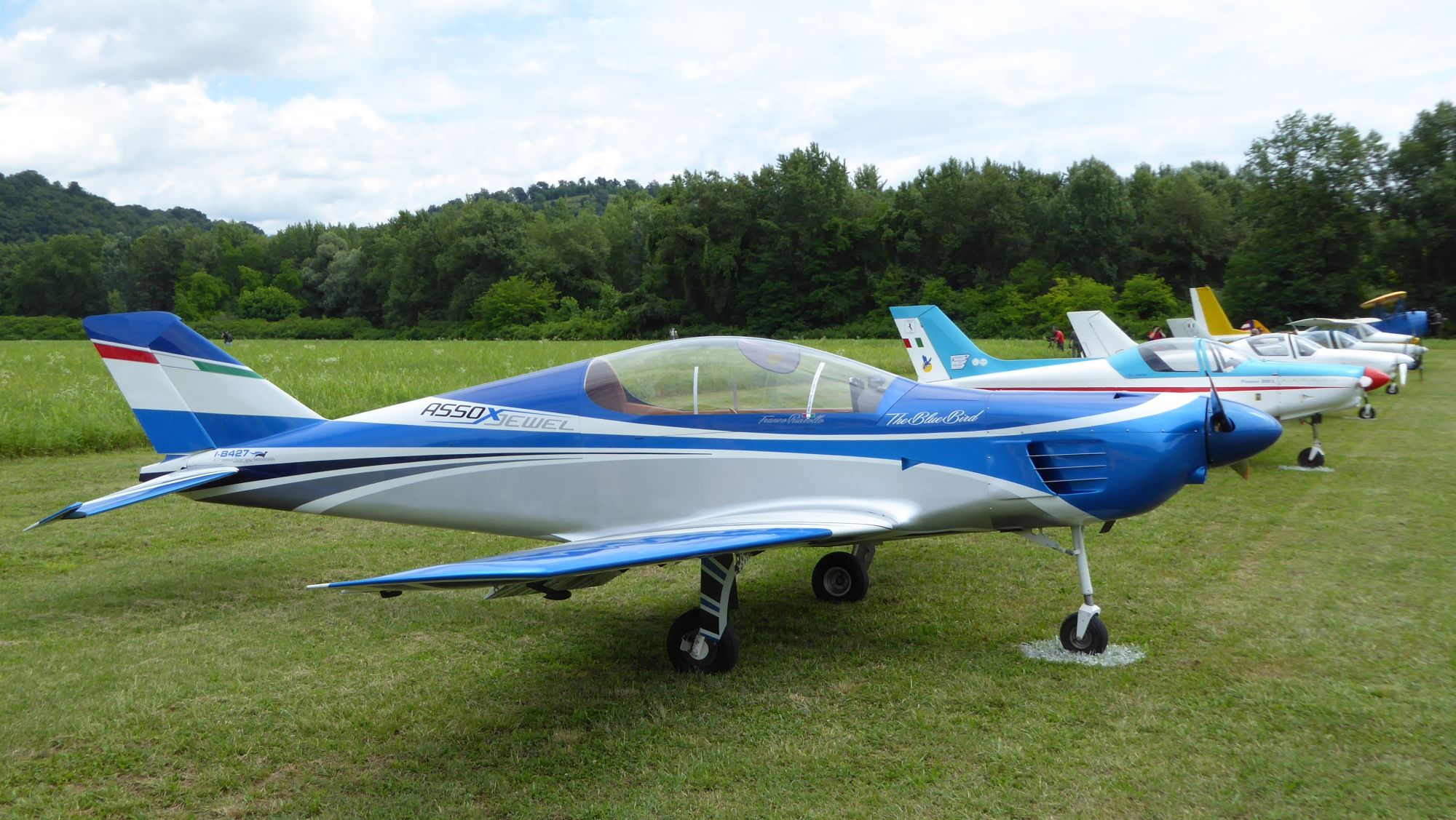 Taken at Nervesa della Battaglia, Italy